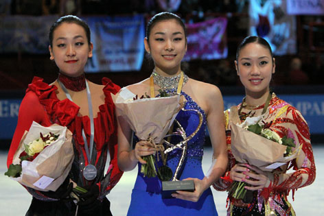 Mao Asada (2), Kim Yu-Na (1), Yukari Nakano (3) at the 2009 Trophee Eric Bompard.